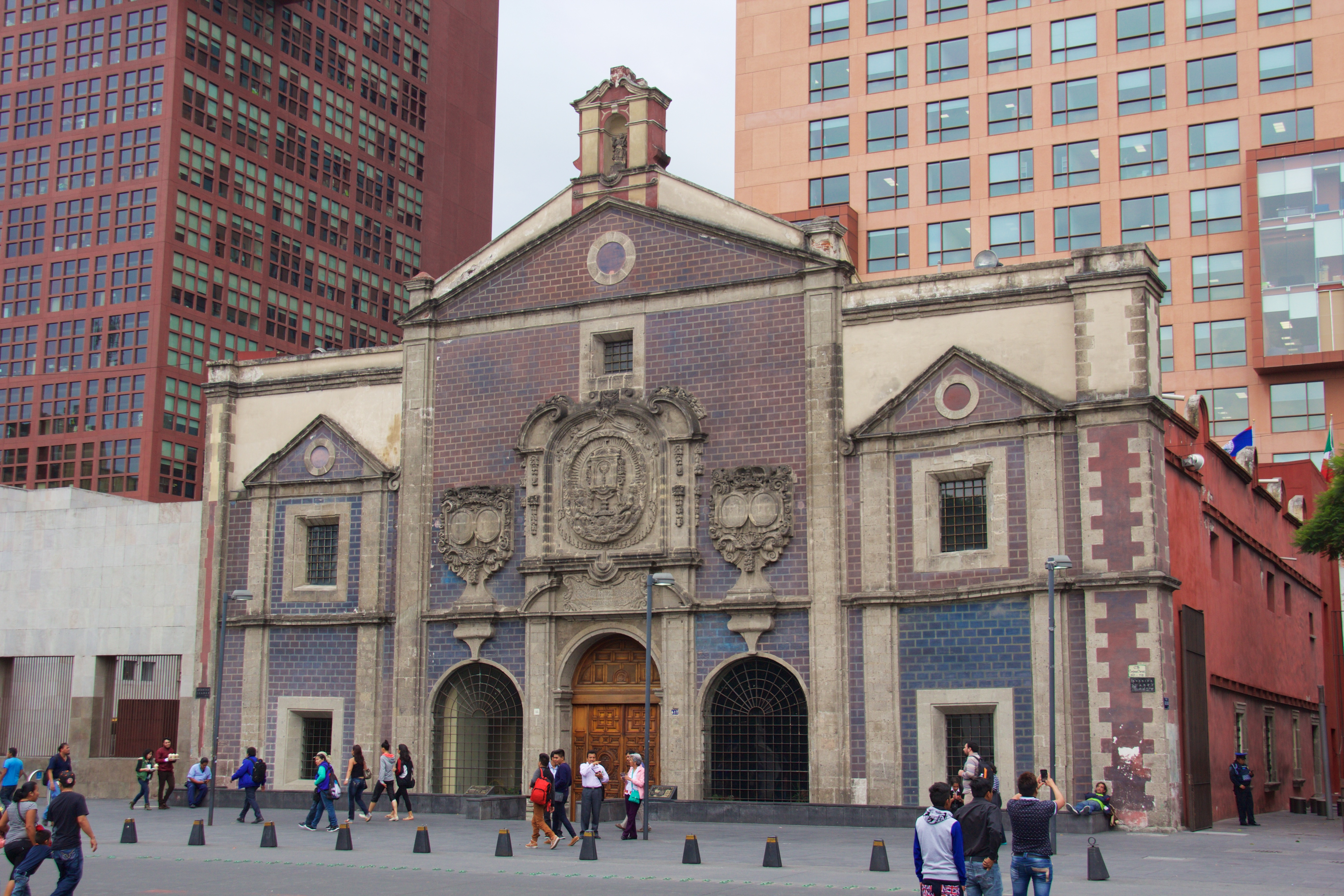 Mexico City, Mexico.